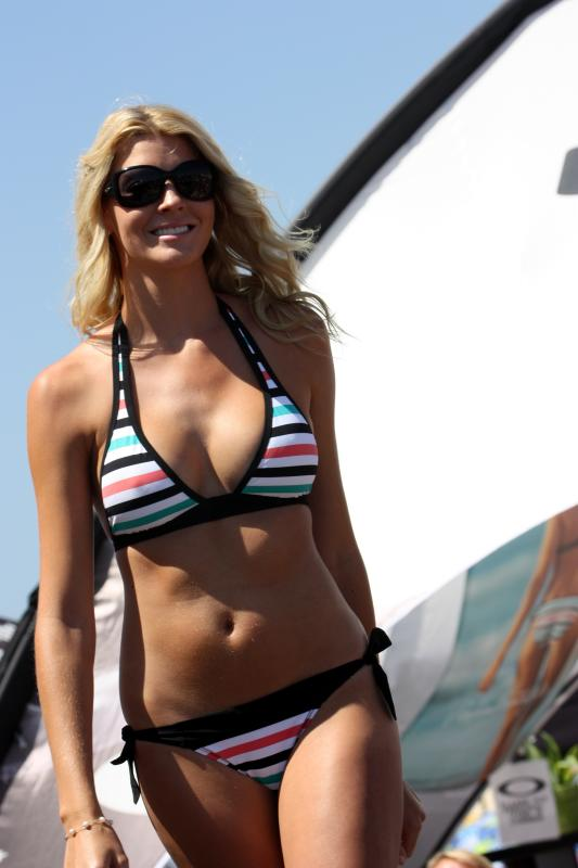 blonde model wearing two-piece Oakley bathing suit with a view from the front